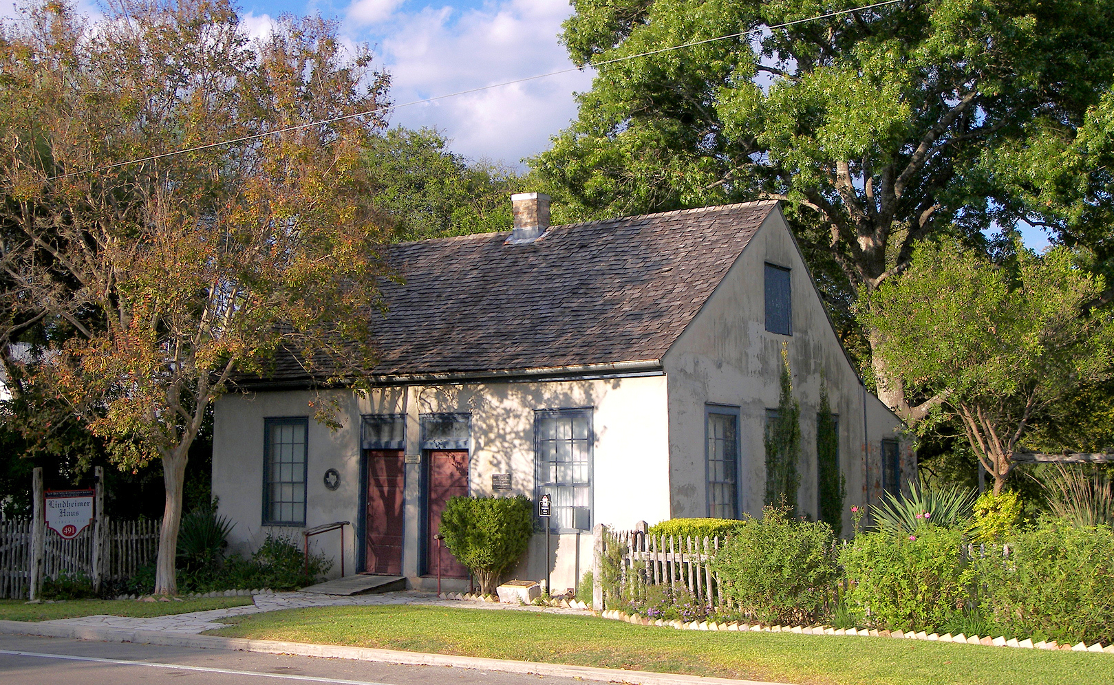 The Lindheimer House located in New Braunfels, Texas, United States. The house was designated a Recorded Texas Historic Landmark in 1968 and listed on the National Register of Historic Places on August 25, 1970.